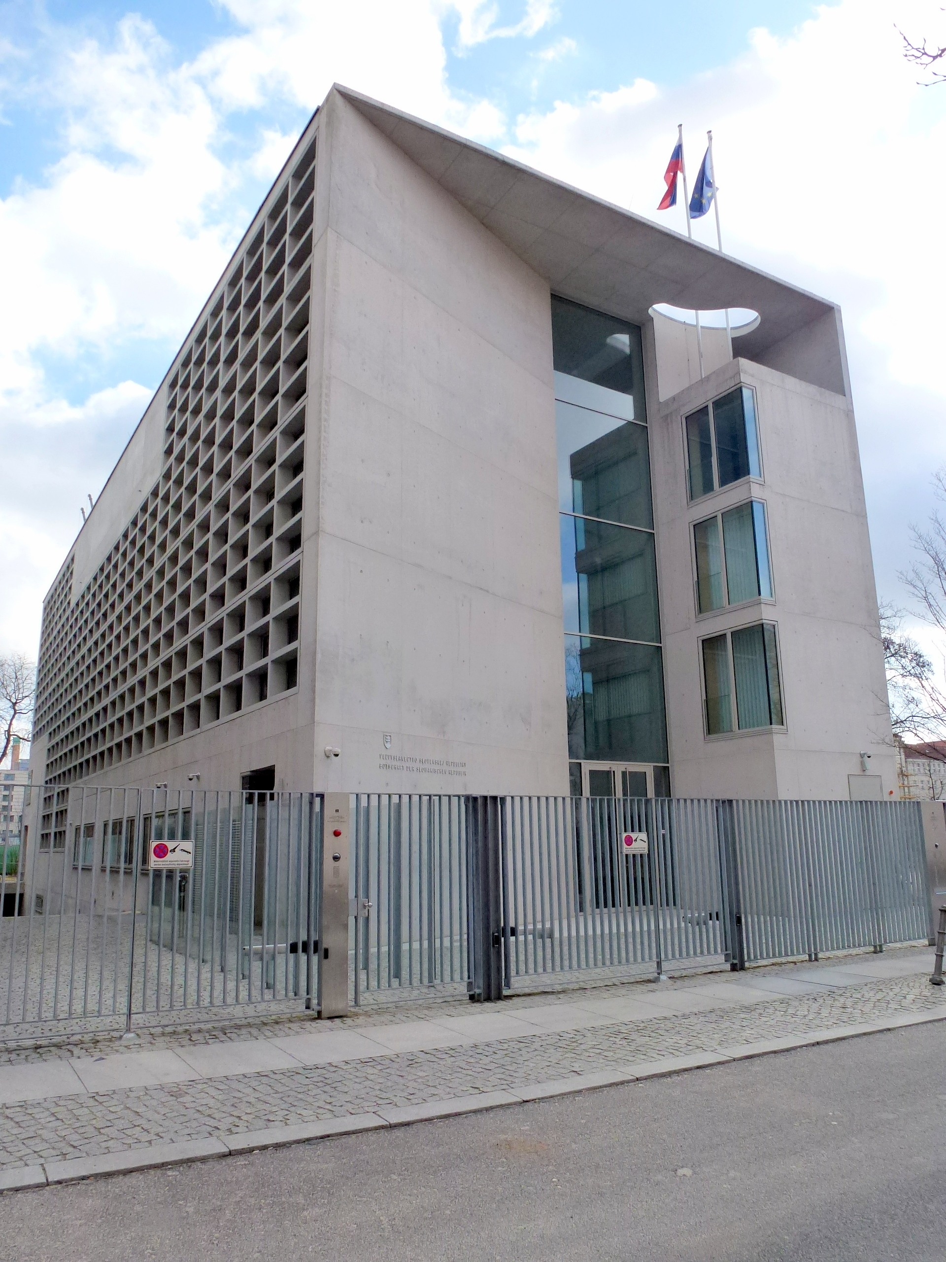 Tiergarten Hildebrandstraße Slovakian Embassy